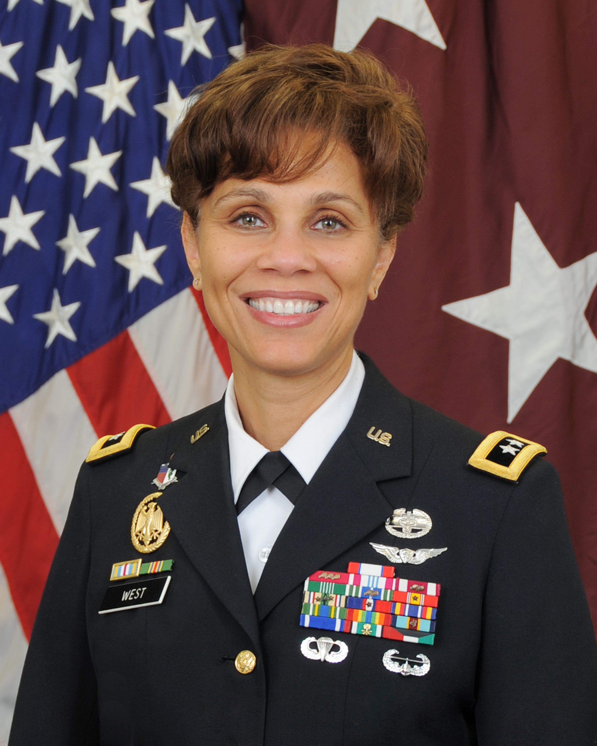 Lt. Gen. Nadja Y. West Army Surgeon General and Commanding General, U.S. Army Medical Command.